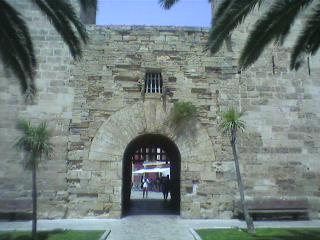 Section of the Old Wall, Alcudia, Majorca, Spain